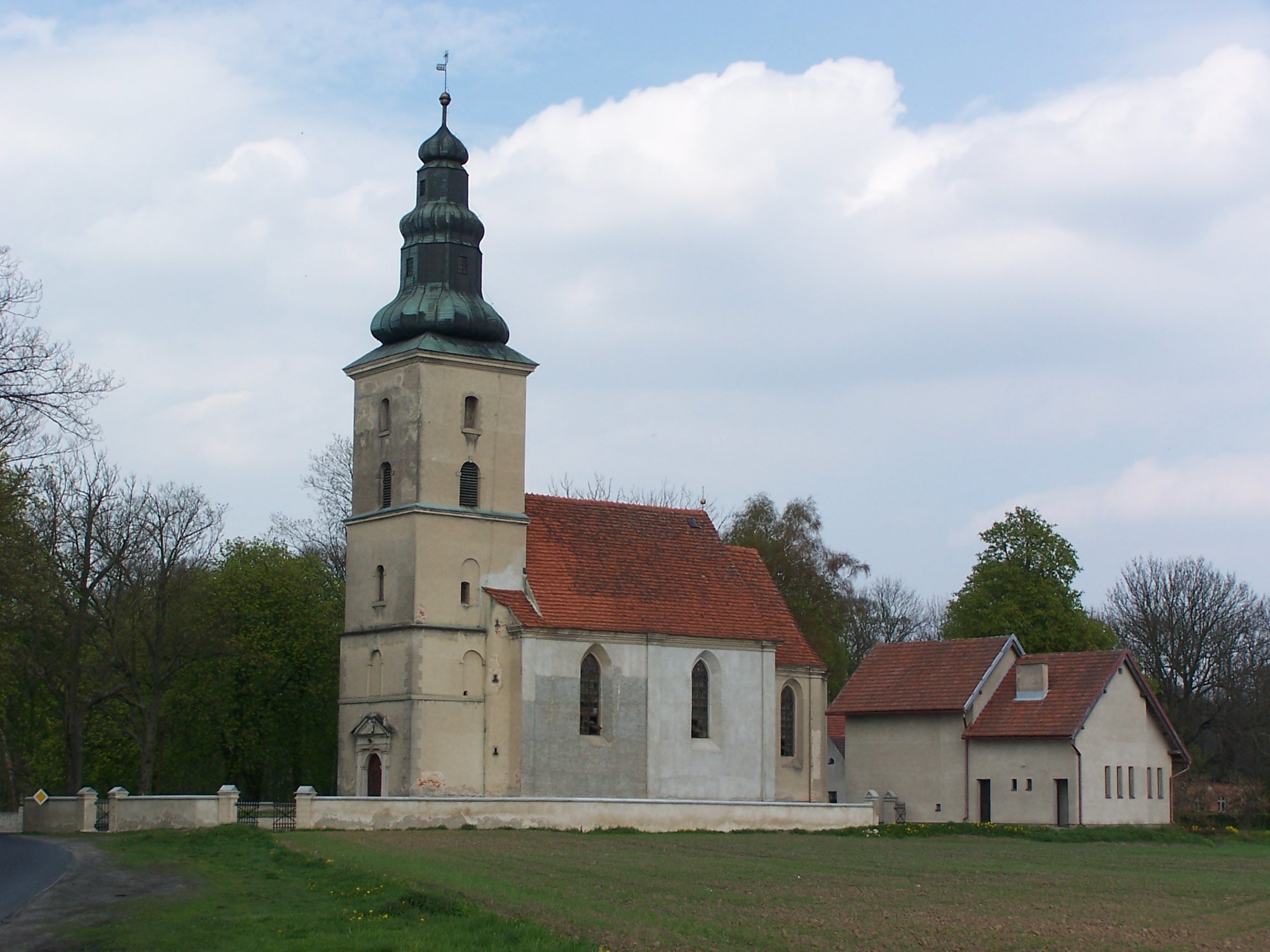 Holy Trinity church in Runowo Krajeńskie, Poland